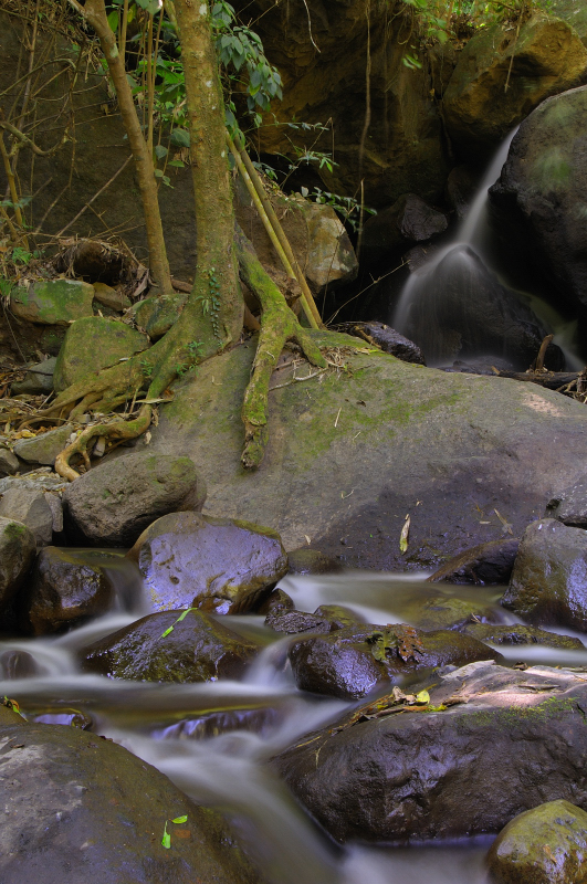 Forest Slurup